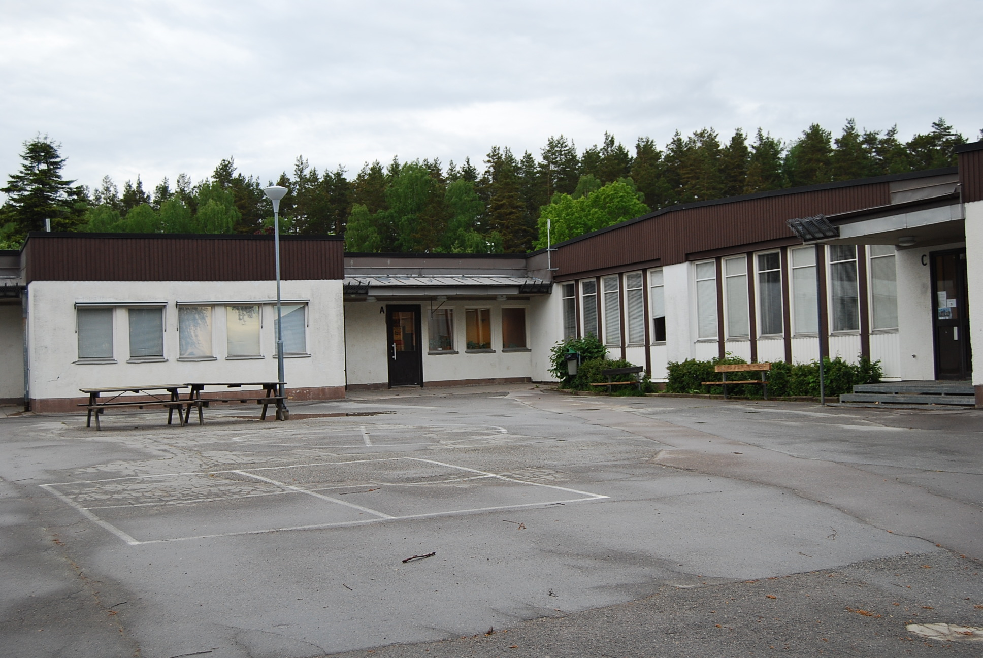 Slagstaskolan in Eskilstuna, Sweden.